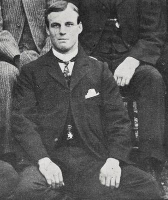 Peter Harvey, a member of the New Zealand rugby union team, the All Blacks, pictured before playing the 1904 British Isles team in Wellington, New Zealand. Cropped from File:1904 All Blacks before British Isles match.jpg